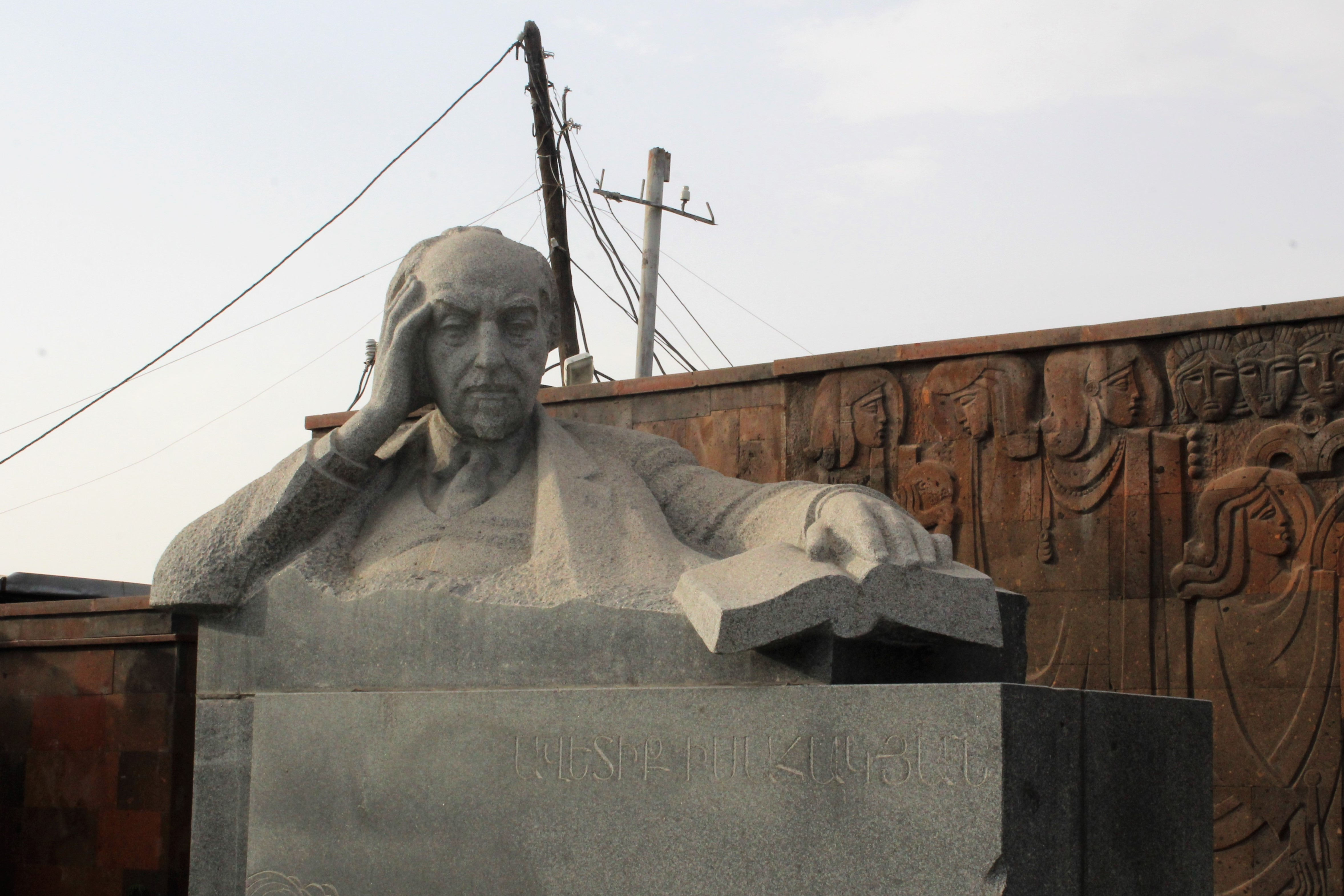 Cemetery of Avetiq Isahakyan, Yerevan 11/19.13